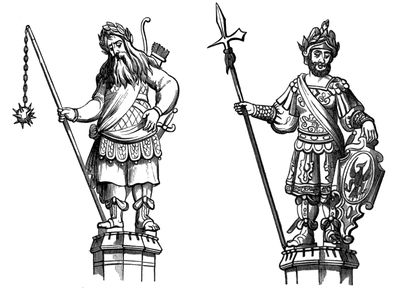 Gog and Magog. The Giants in the Guildhall of London